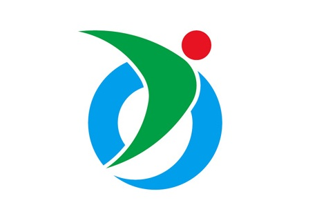 Flag of Tsuno Kochi